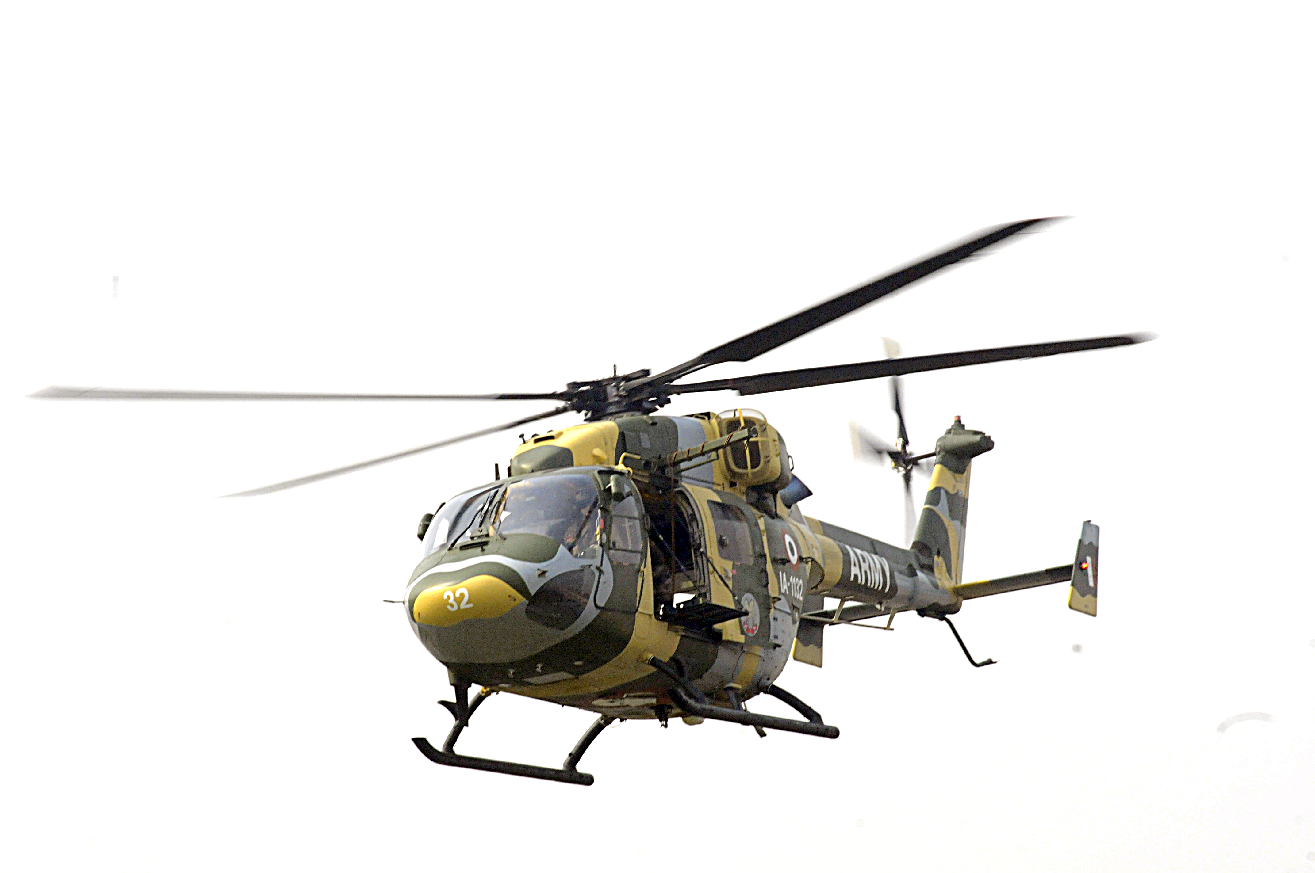 Indain Army Dhruv